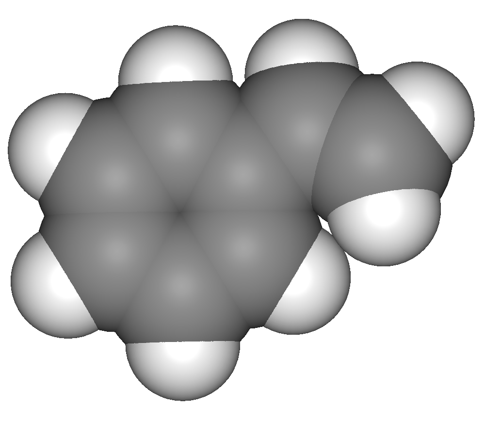 CPK chemical structure of styrene